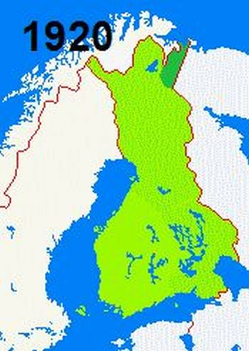 Border changes in Finland 1920